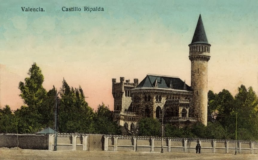 Palacio de Ripalda, Valencia (Spain).